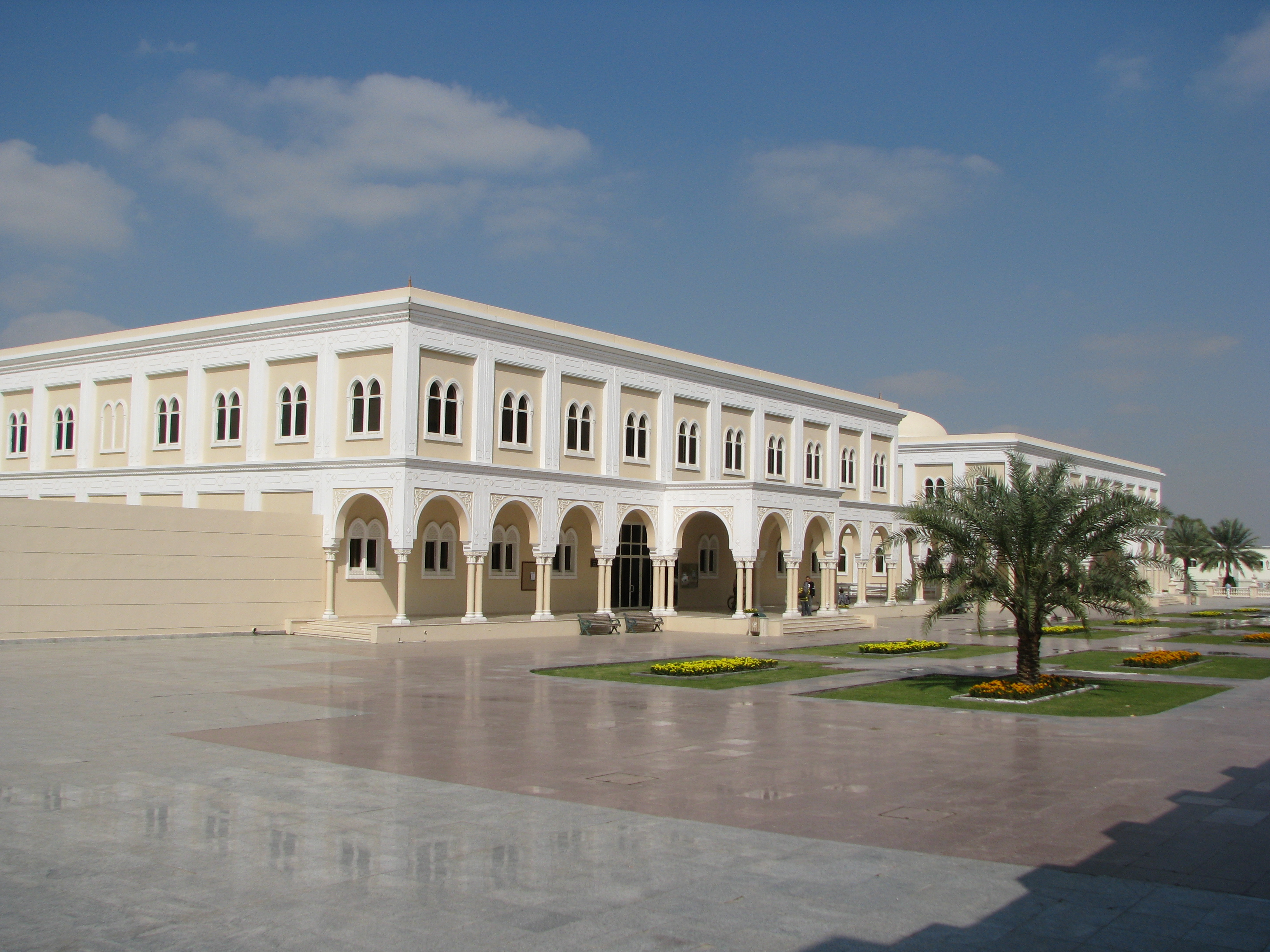 View of the building for the engineering departments